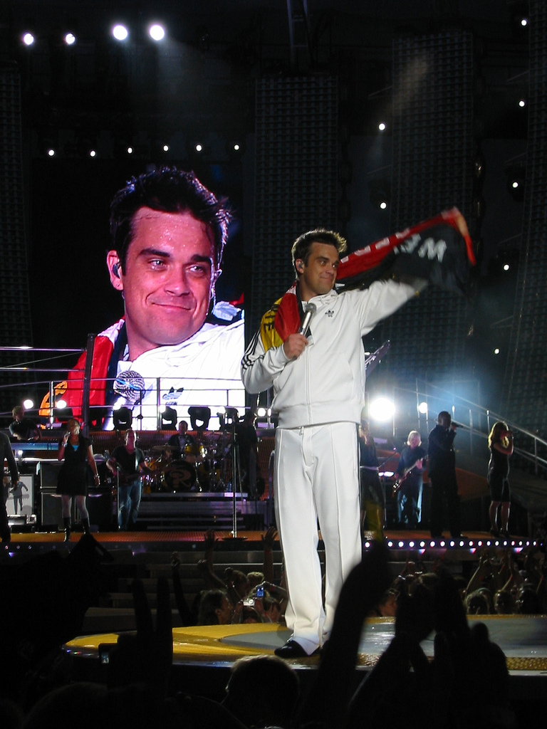 RW